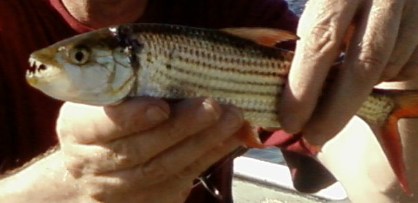 Small tigerfish Hydrocynus vittatus from the upper Zambezi, near Livingstone. Excuses for image quality, small size, taken with a mobile. Hope to have an intact camera and bigger fish next time. This species can grow up to a meter.